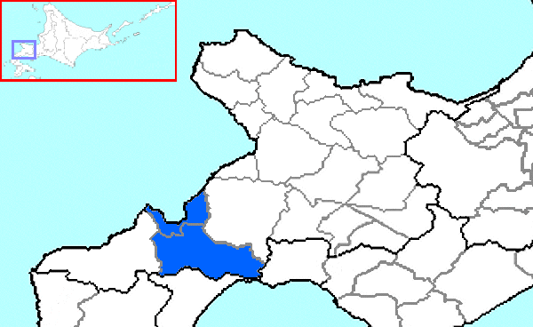 The location of Suttsu District in Shiribeshi Subprefecture, Hokkaido Prefecture, Japan.